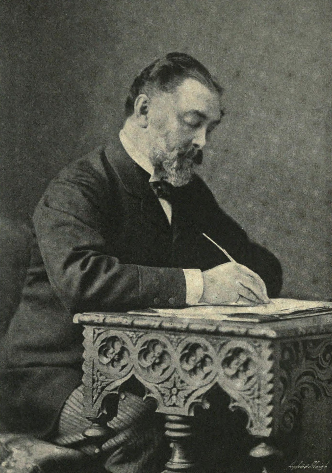 Portrait of Frederic Harrison